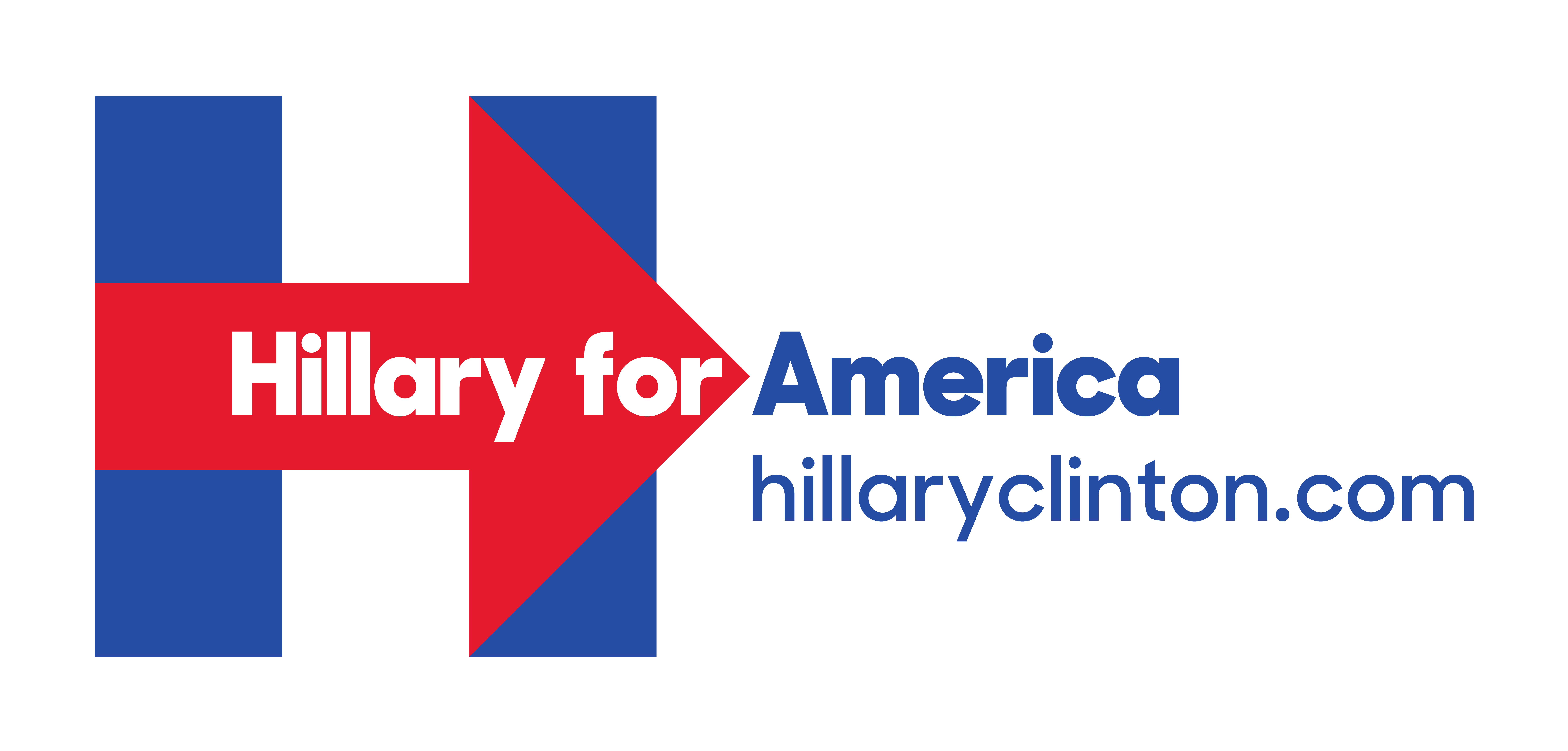 Hillary for America logo with website line